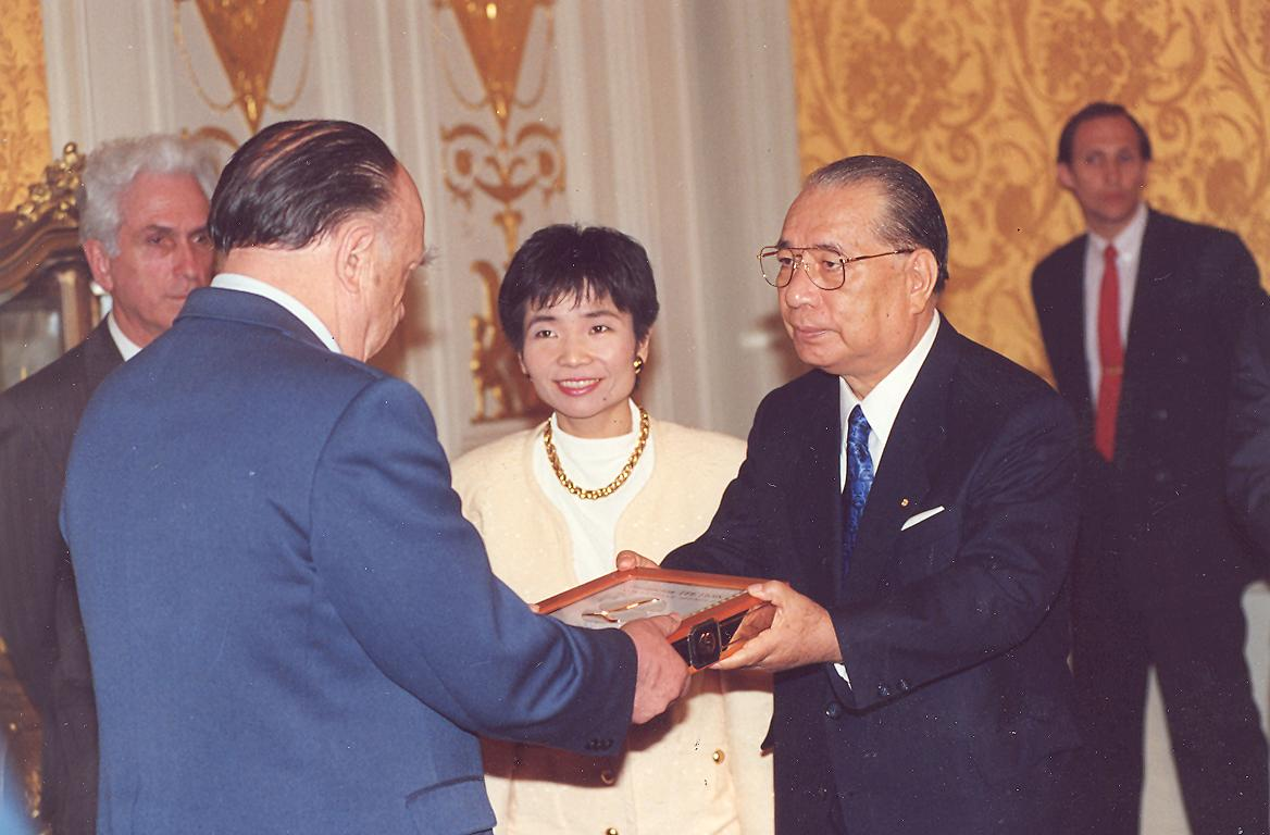 The Leonardo Prize awarded to Daisaku Ikeda by Alexander Nikolaevich Yakovlev